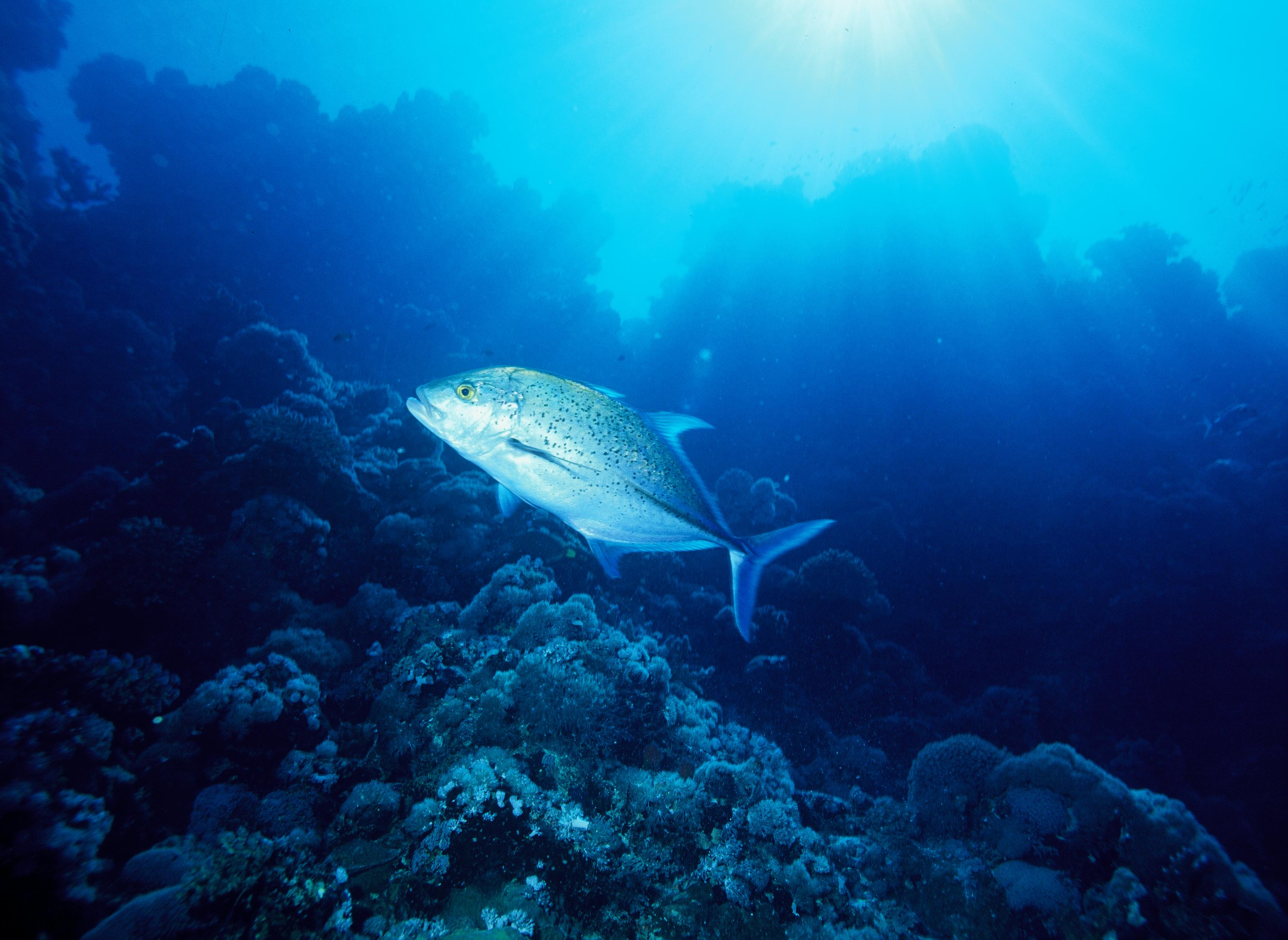 A Caranx melampygus, commonly known as the bluefin trevally.